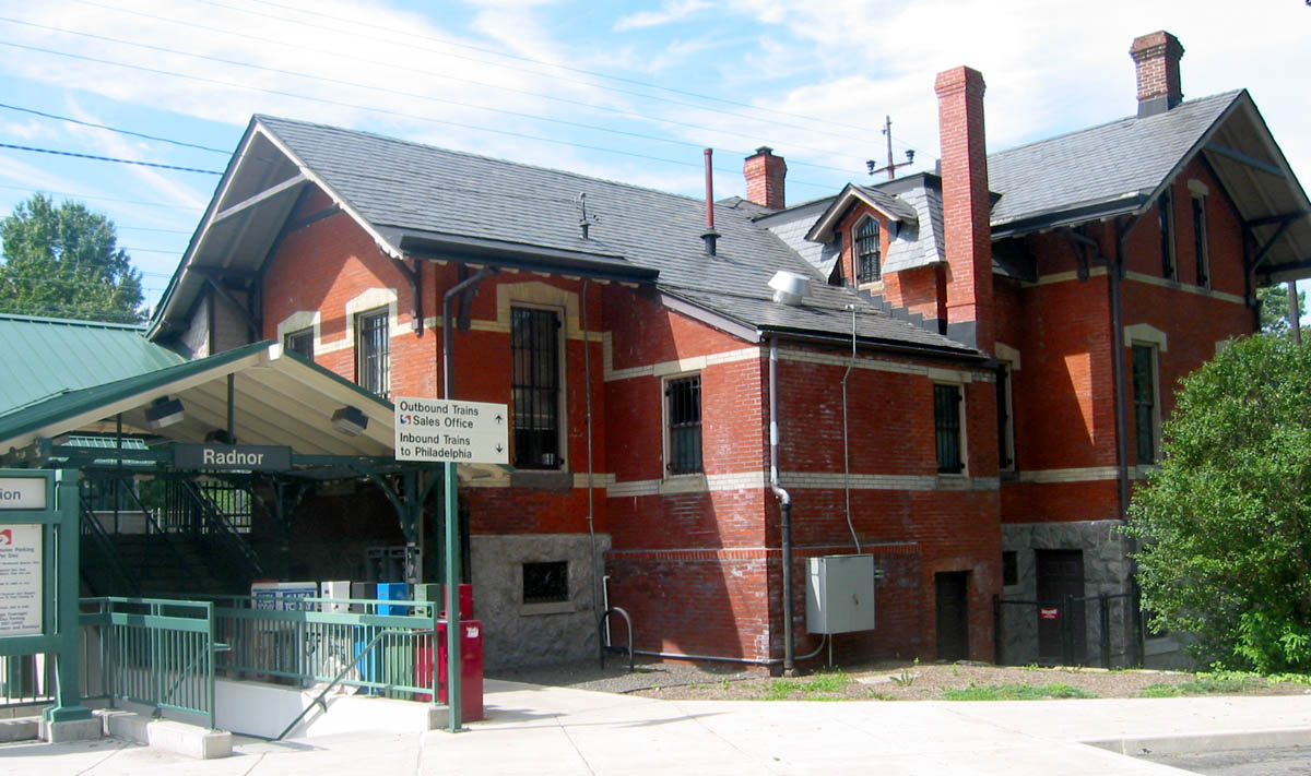 Photo of Radnor train station in Radnor, Pennsylvania.